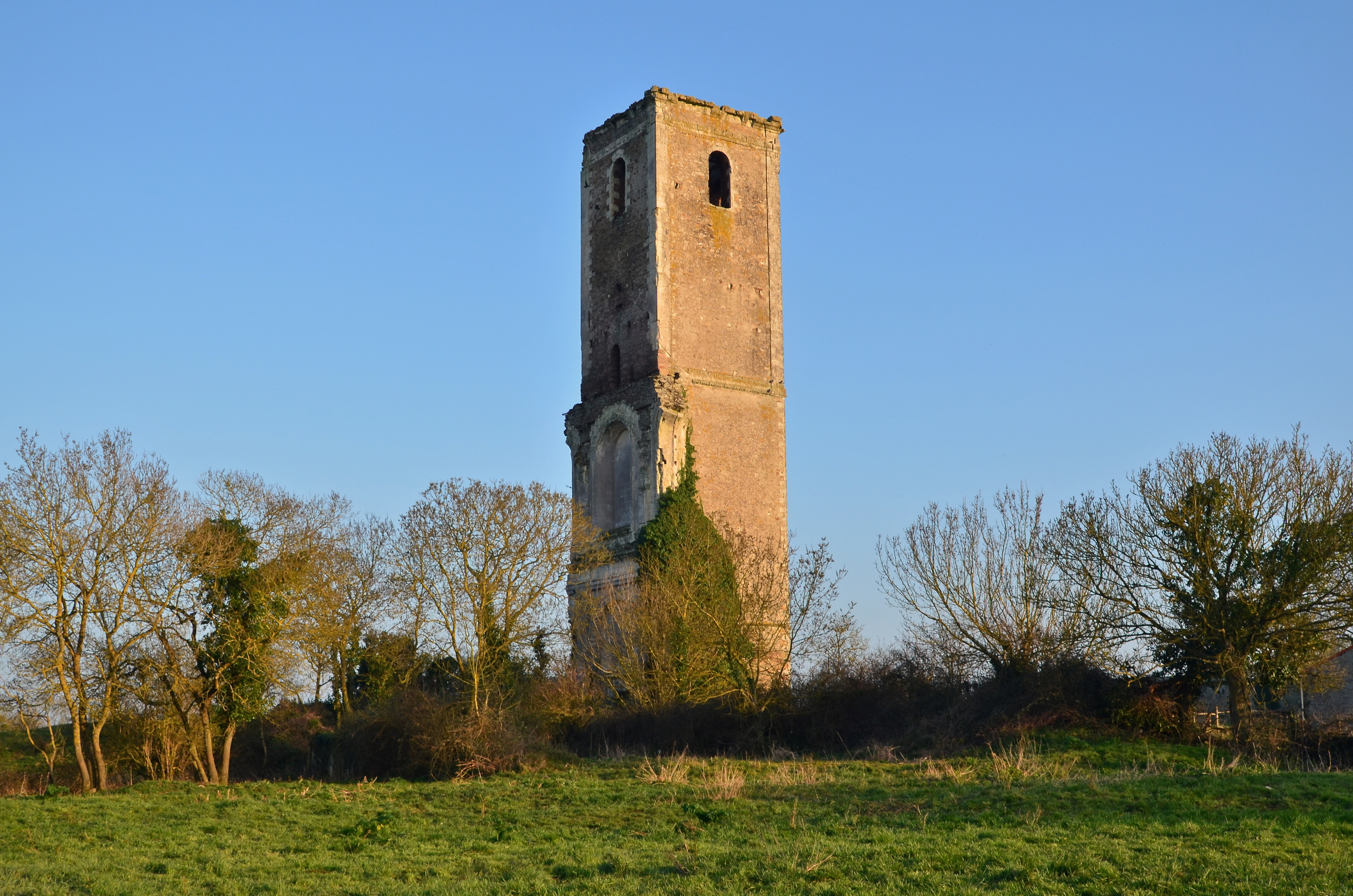 Buzay abbey - Rouans - Loire-Atlantique